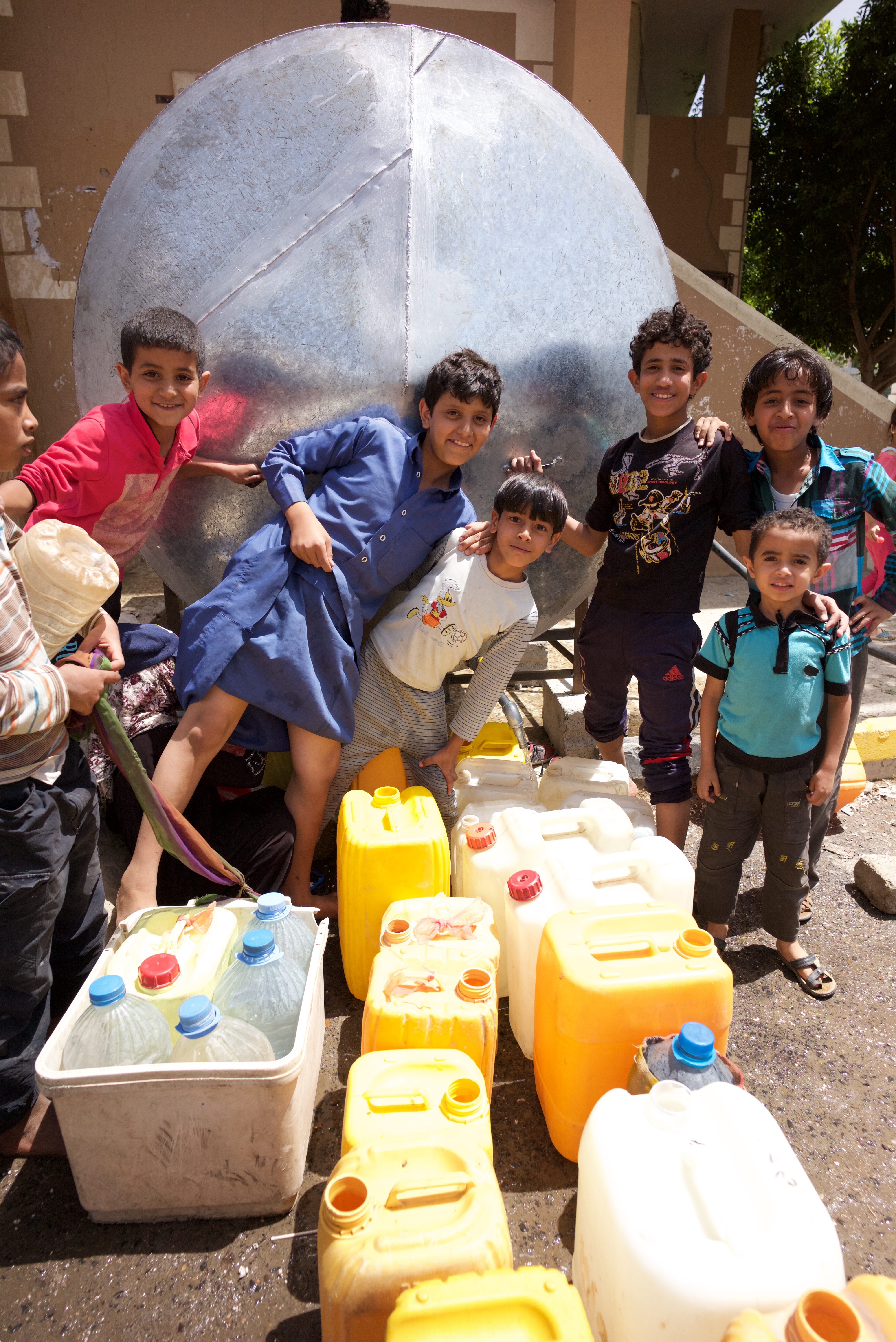 With fuel almost impossible to get hold of in Sanaa, the water authority could not operate the network, so UNICEF worked with the Yemen Petroleum Company to buy fuel and organise water trucking to the most vulnerable parts of Sanaa. We are doing similar work across all parts of the country. Without clean water waterborne diseases are a certainty and put children at risk.